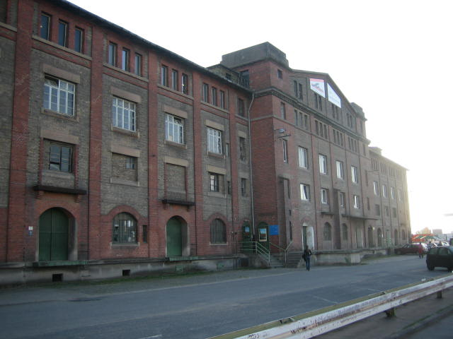 The old Weinlagerhaus (wine storage building) in the port of Mainz.